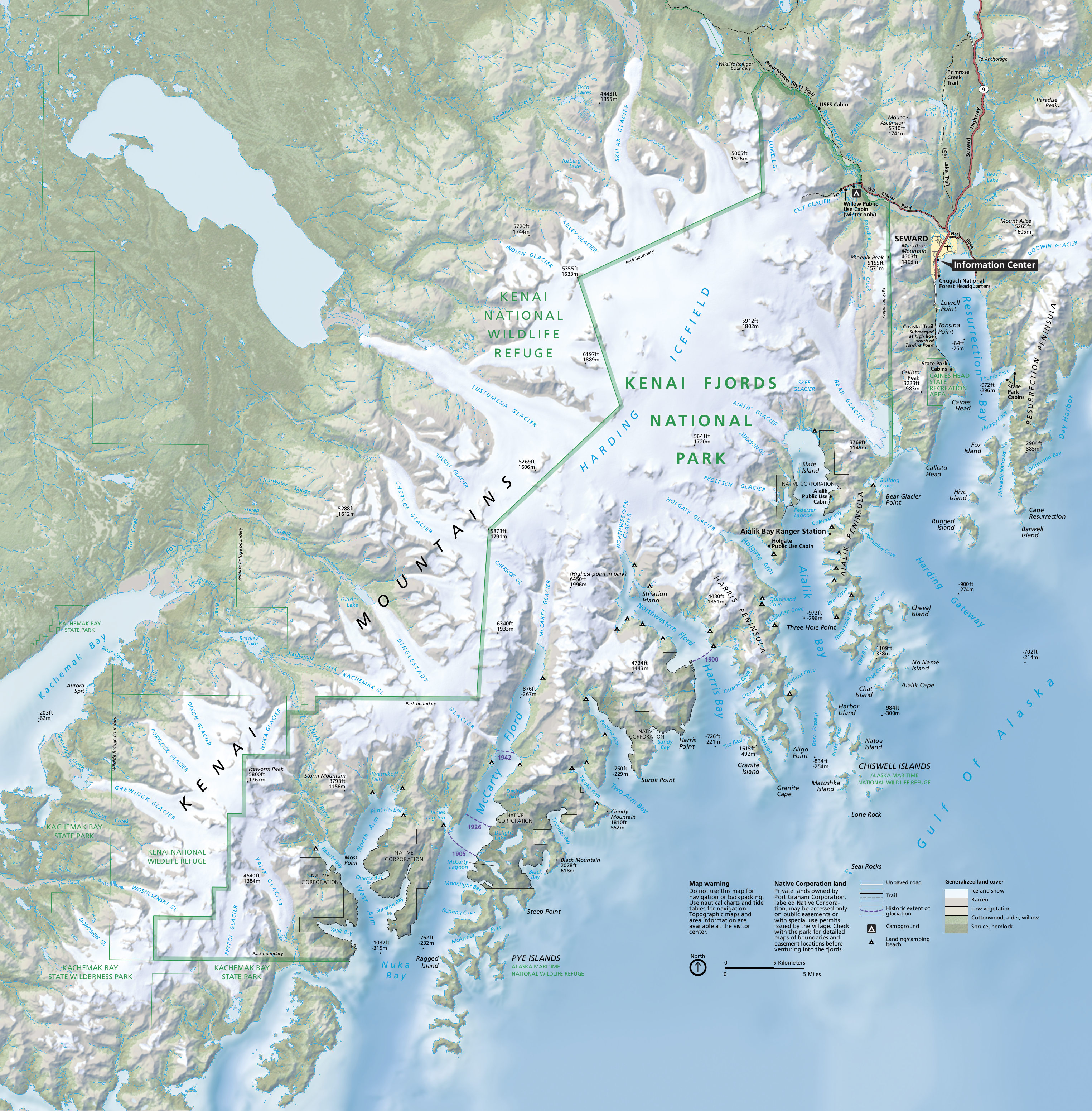 Full Kenai Fjords map, showing the Exit Glacier area as well as the fjords and islands southwest of Seward.